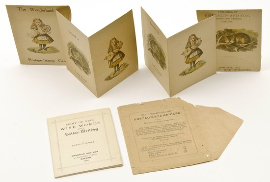 The Wonderland Postage-Stamp Case. Dodgson (Charles Lutwidge)], "Lewis Carroll." The Wonderland Postage-Stamp Case [&] Eight or Nine Words About Letter-Writing, printed card holder, stamp case and pamphlet, in a printed envelope (torn and creased), 118 x 93mm. & smaller, [Crutch 193, 194 & 195], Oxford, 1890; and a duplicate of card holder and stamp case, (6 pieces).